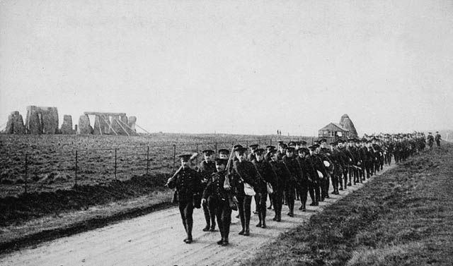 10th Battalion, CEF marches past Stonehenge in the winter of 1914-15.